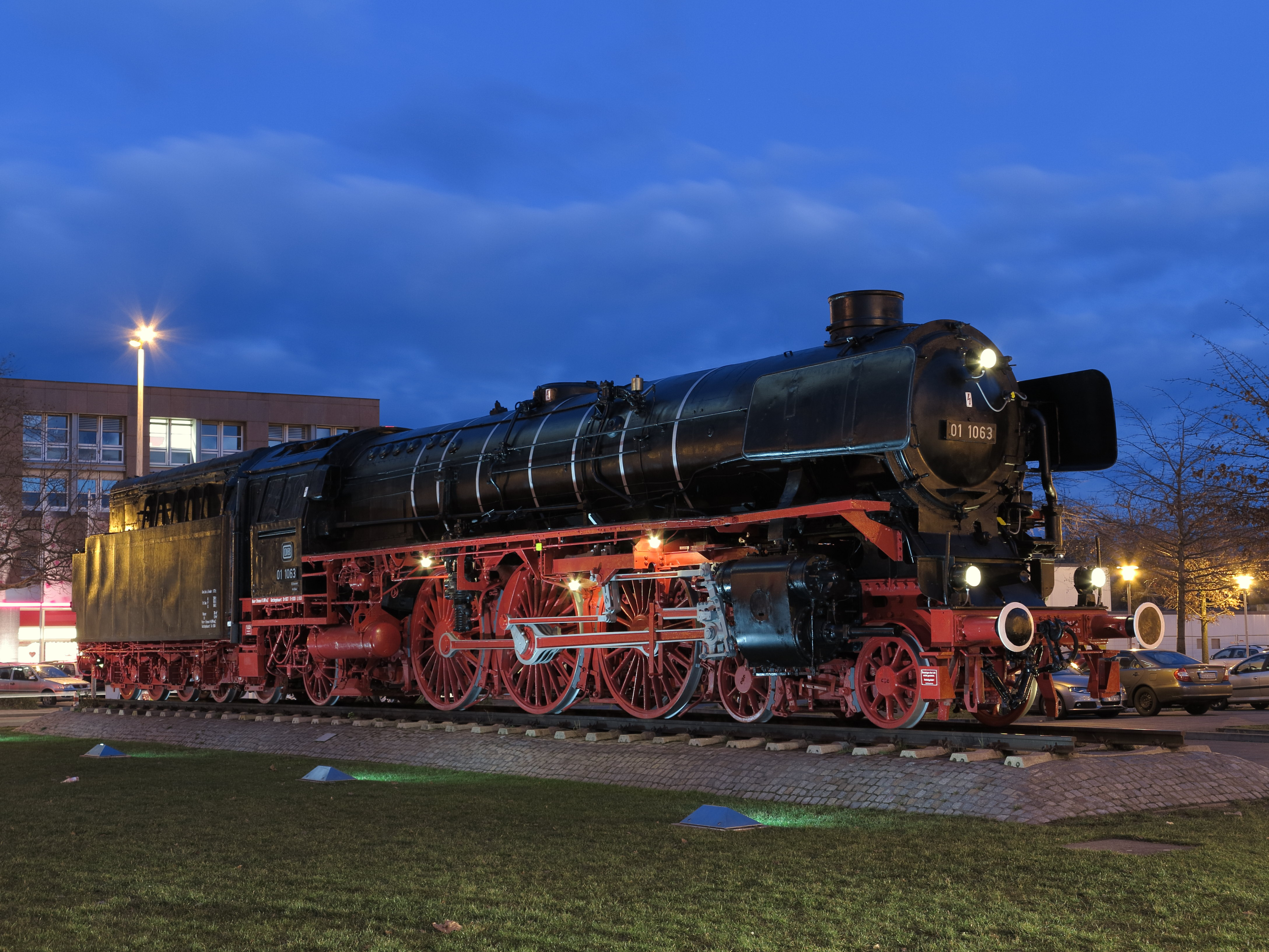 Steam locomotive 01 1063, built in 1939 and taken out of service in 1975. Since 1977 it is displayed as a museum piece near the Braunschweig station. In early 2013 it was once more refurbished.